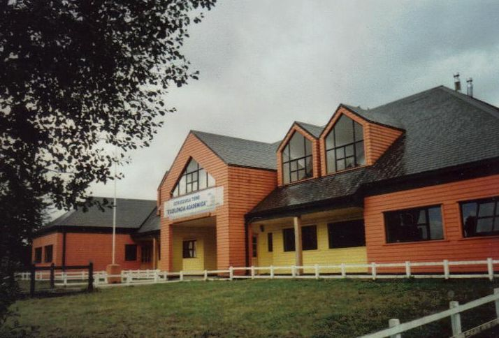 School in the village Aldachildo, Isla Lemuy, Provincia de Chiloé, Chile